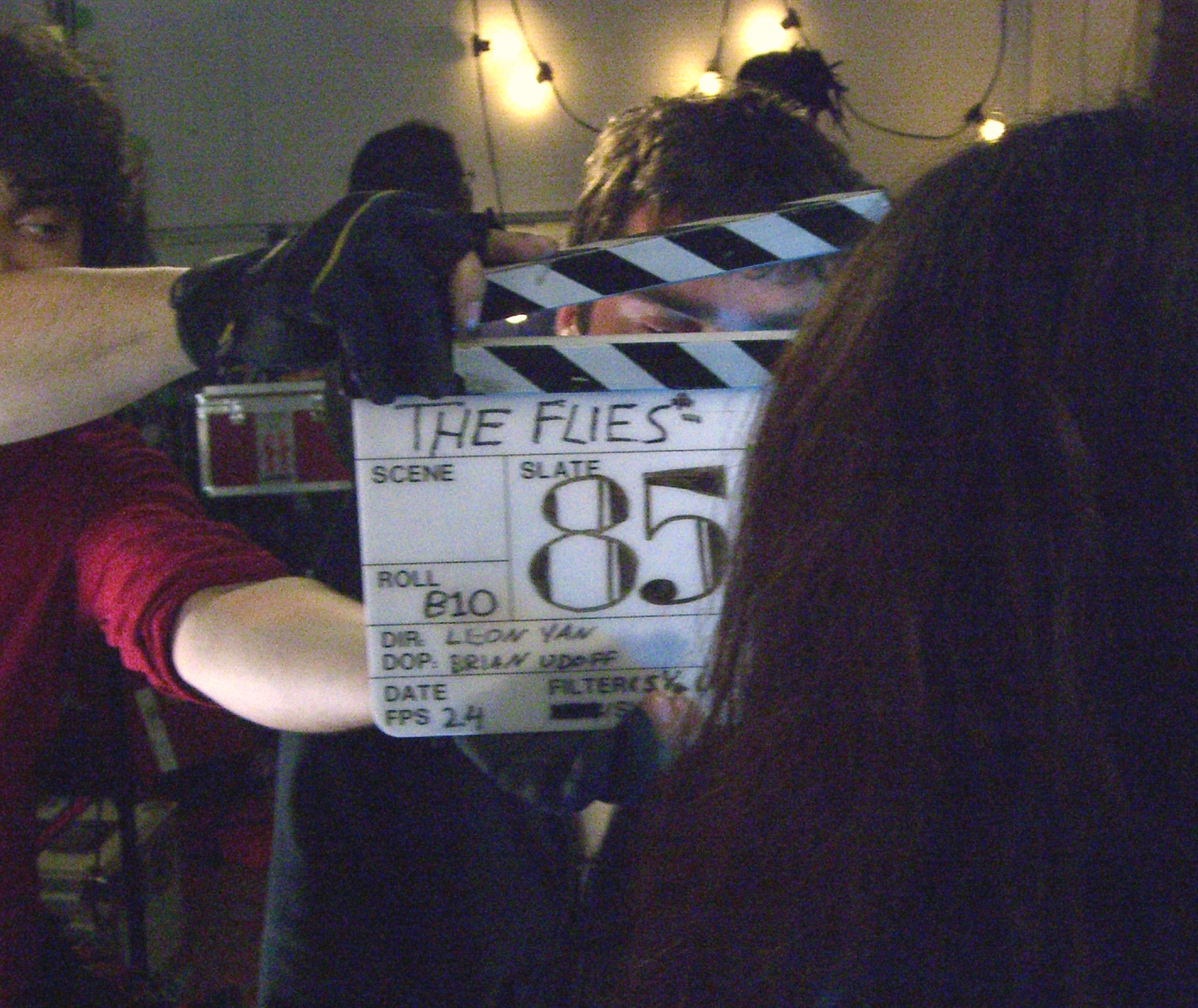 On-set photo from "The Flies", a short film shot in London. Taken on 2007-03-06 by User:Girolamo Savonarola. Uploaded with the intention of usage within the clapperboard article.